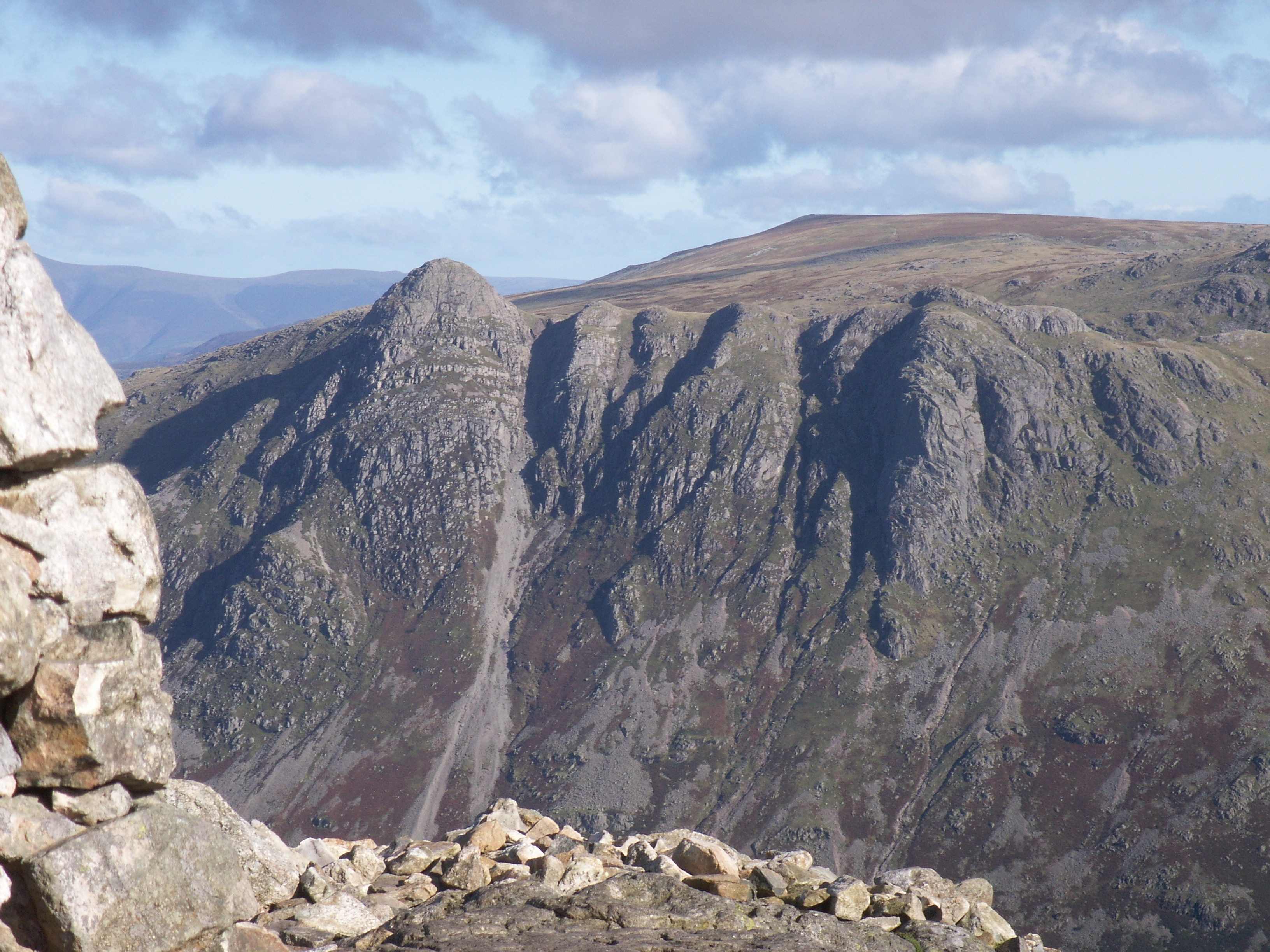 Pike of Stickle in Westmorland in the Lake District, taken from Pike of Blisco GFDL